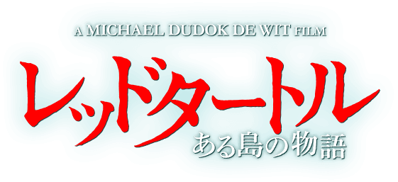 The Red Turtle's movie logo